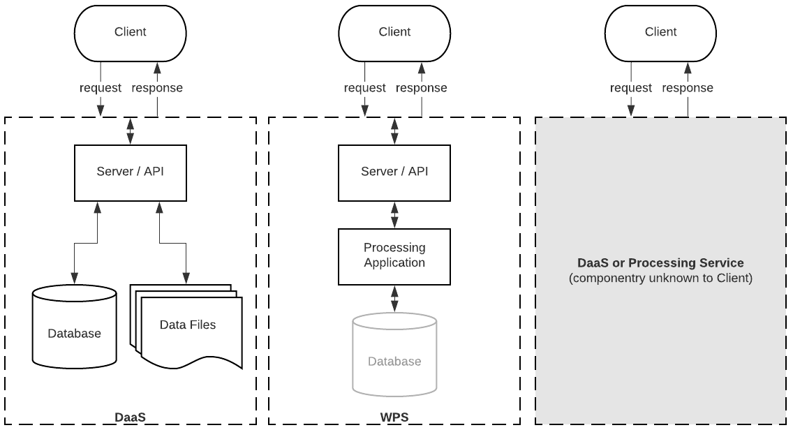 Generalised components of a Data as a Service (DaaS) or a Web Processing service (WPS).